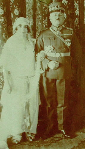 Wedding of Kiazim (Kâzım Karabekir Pasha) and Idjlal (İclâl Hanım) in 1924